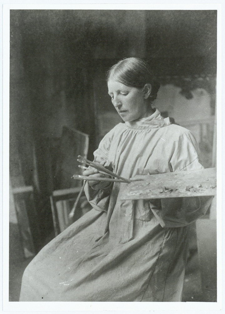 Portrait of Anna Ancher (1859-1935) in a studio. KB id: ke003467.tif Photo: Anna Knudstrup (1884-1959) Department of Maps, Prints and Photographs, The Royal Library, Denmark.